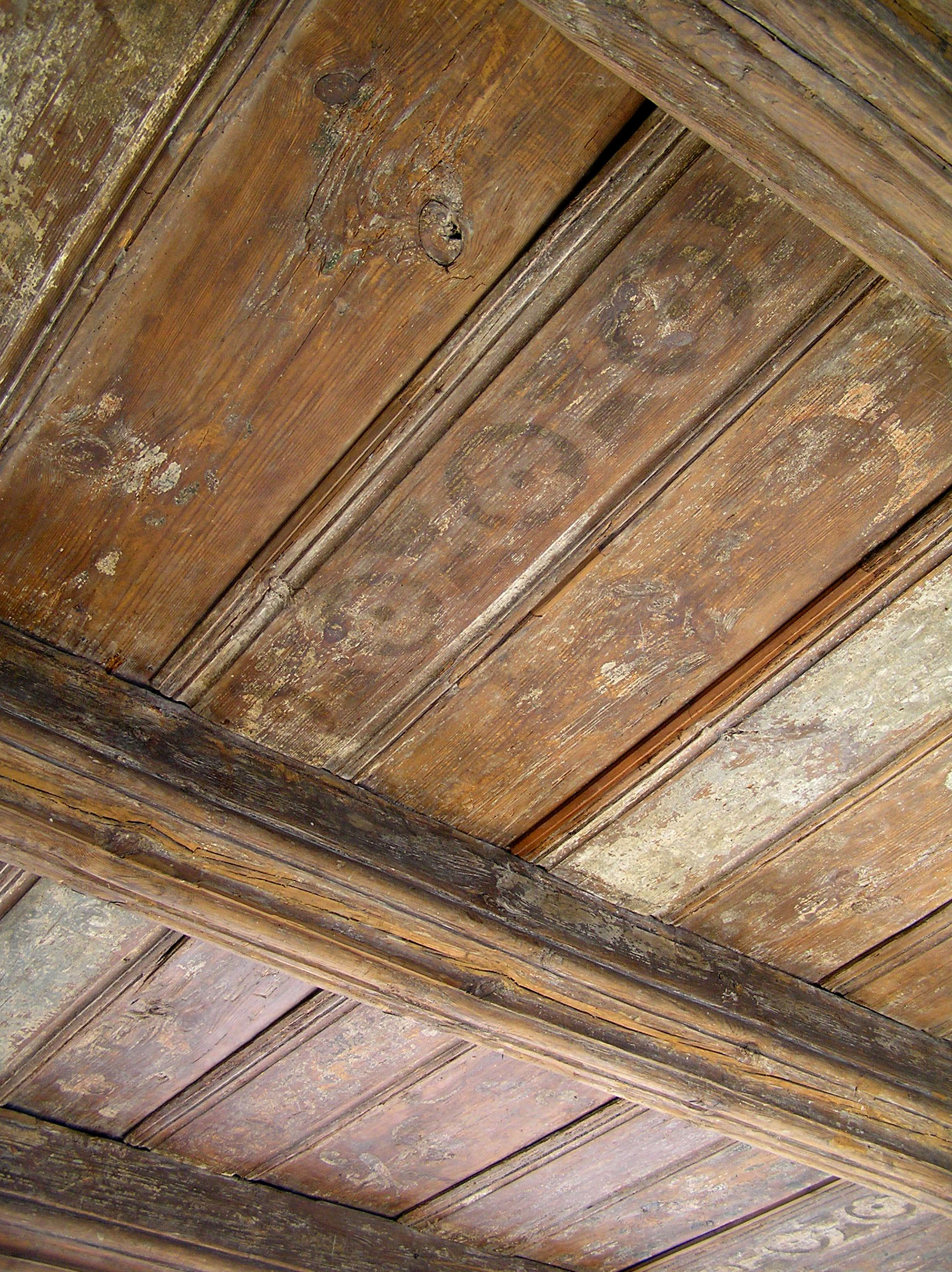 Toruń, Kopernika 21 Str., wooden beam ceiling on the 1st floor, 16th cent.